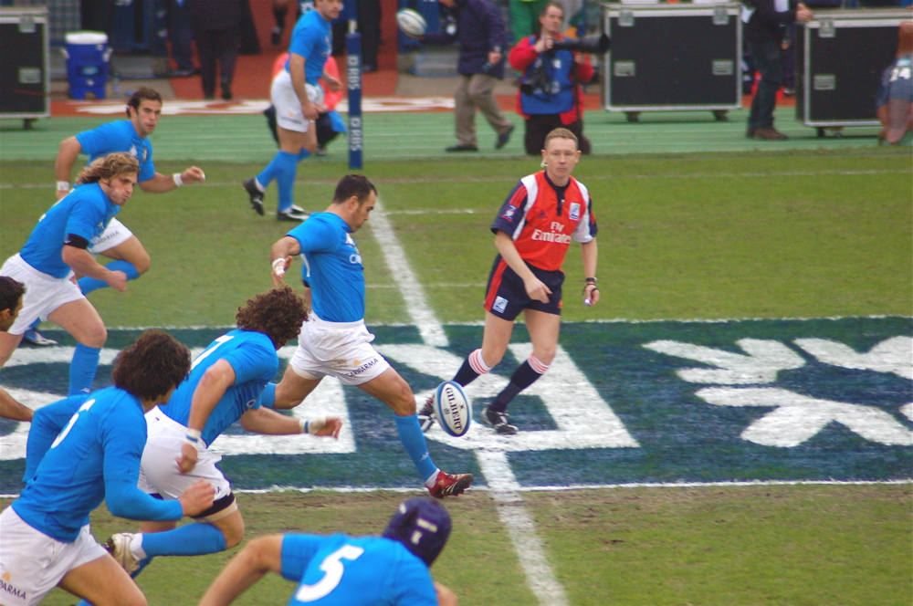 Permission has been sent to the OTRS system. - Shudde talk 01:15, 19 July 2007 (UTC)